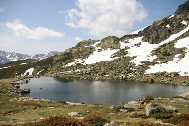 Laguna de Peñalara. Little glaciar lake in the Sierra of Guadarrama. Madrid. Spain.